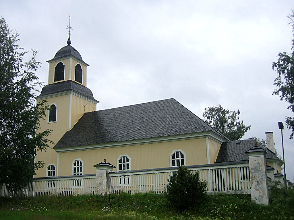 Bodsjö church in Bodsjö, Jämtland, Sweden